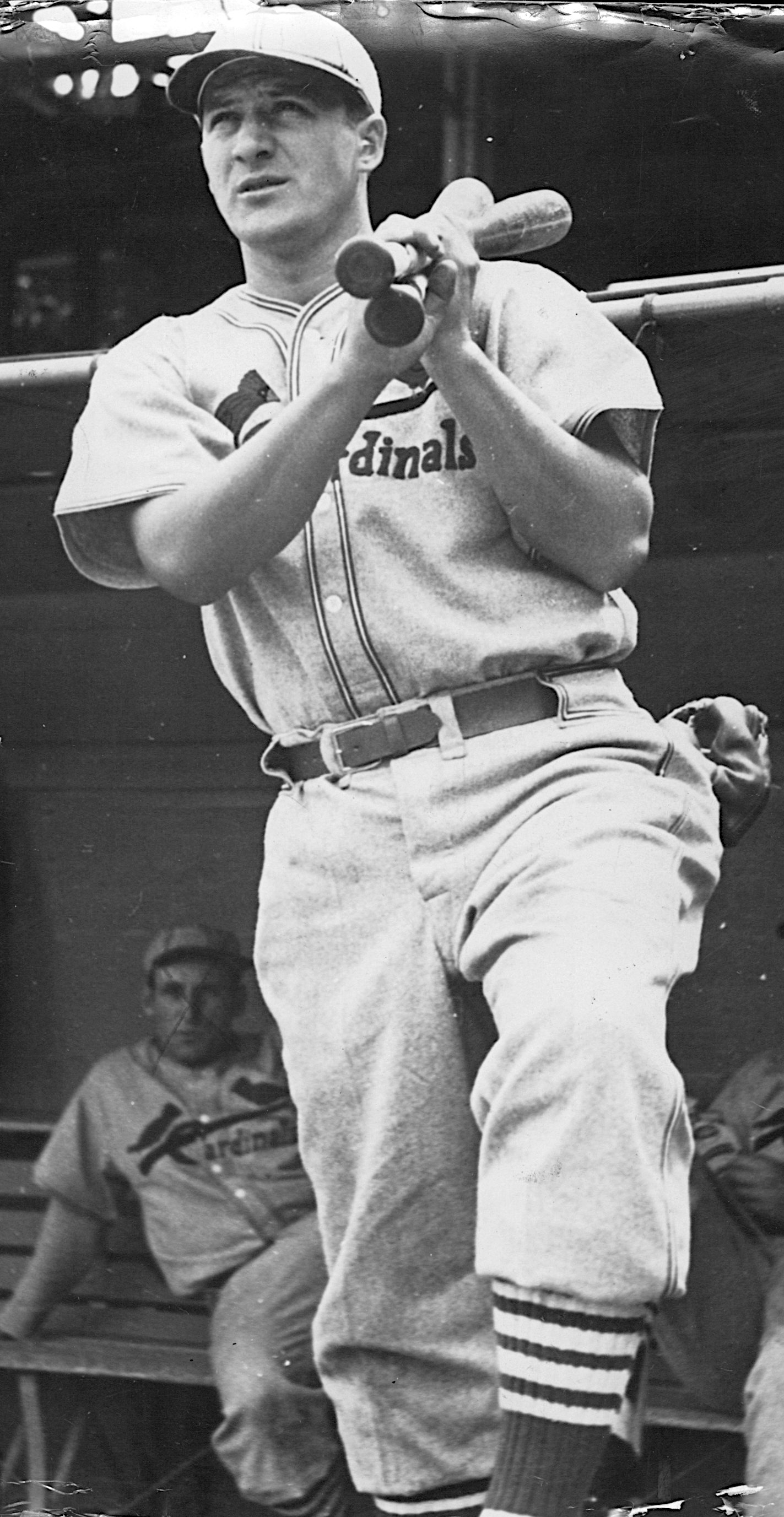 Joe Medwick in 1964